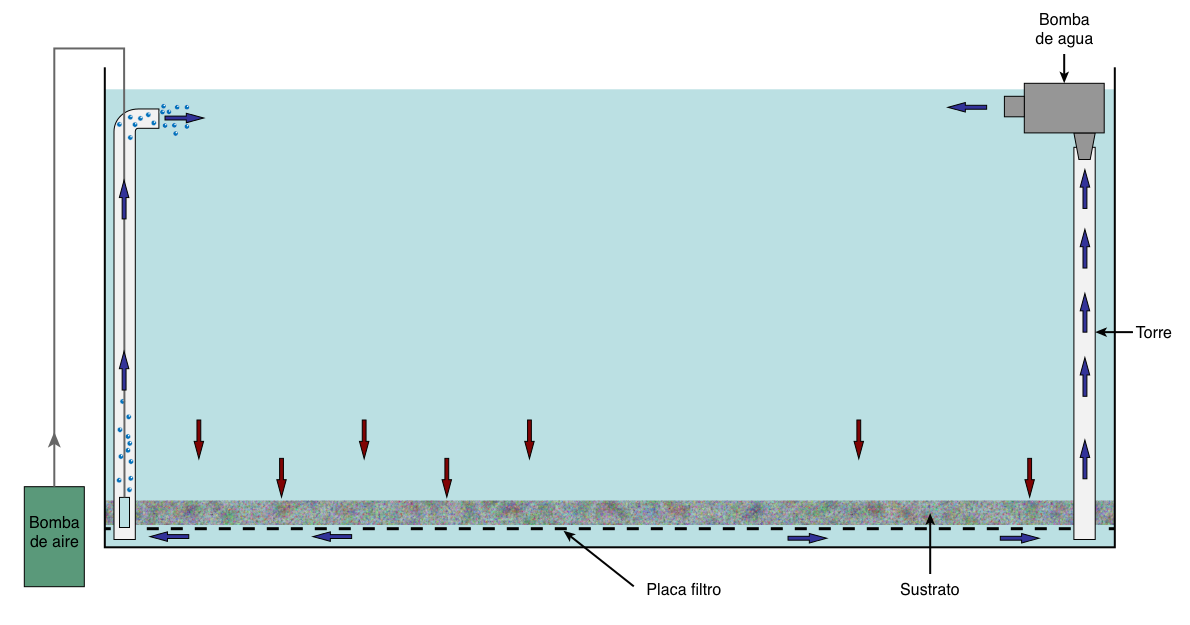 Spanish version of